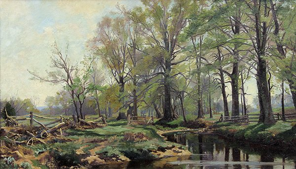 Spring. Artist: H. Bolton Jones (1848–1927). Date: 1885–86. Medium: Oil on canvas. Dimensions: 24 1/4 x 40 1/8 in. (61.6 x 101.9 cm).